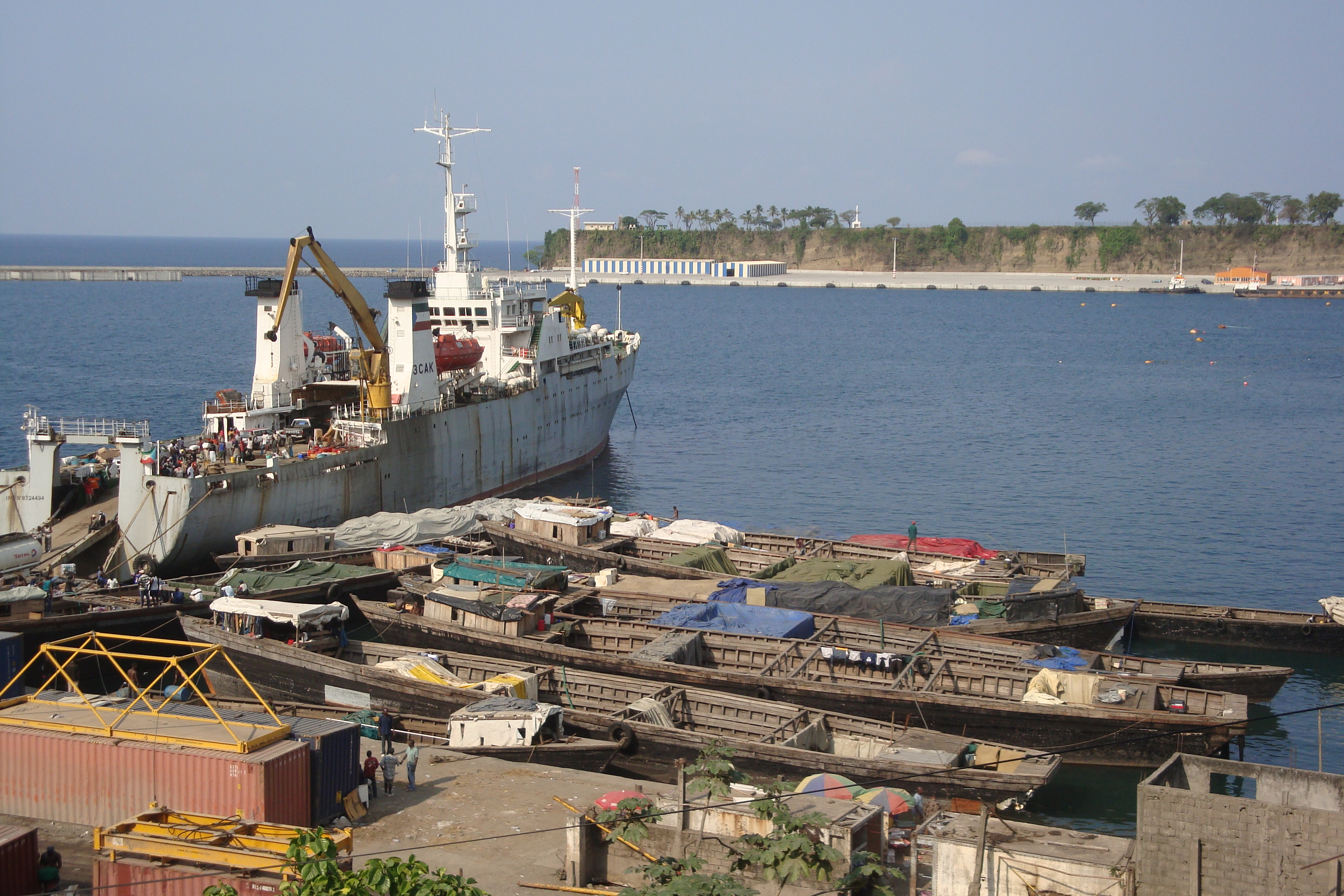 This is an image with the theme "Africa on the Move or Transport" from: Equatorial Guinea